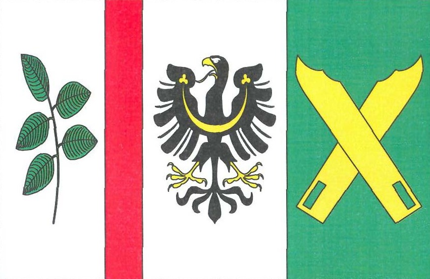 Flag_of_Vysoky_Chlumec, Příbram Distinct, Czech Republic